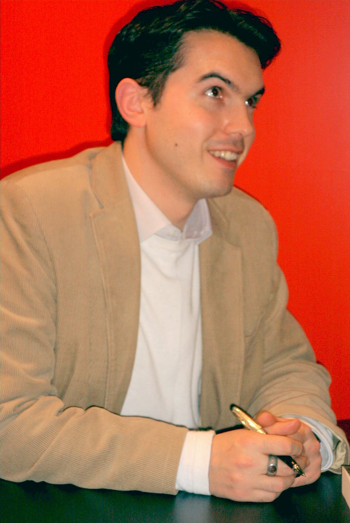 Maxime Chattam by Jean-Marie David